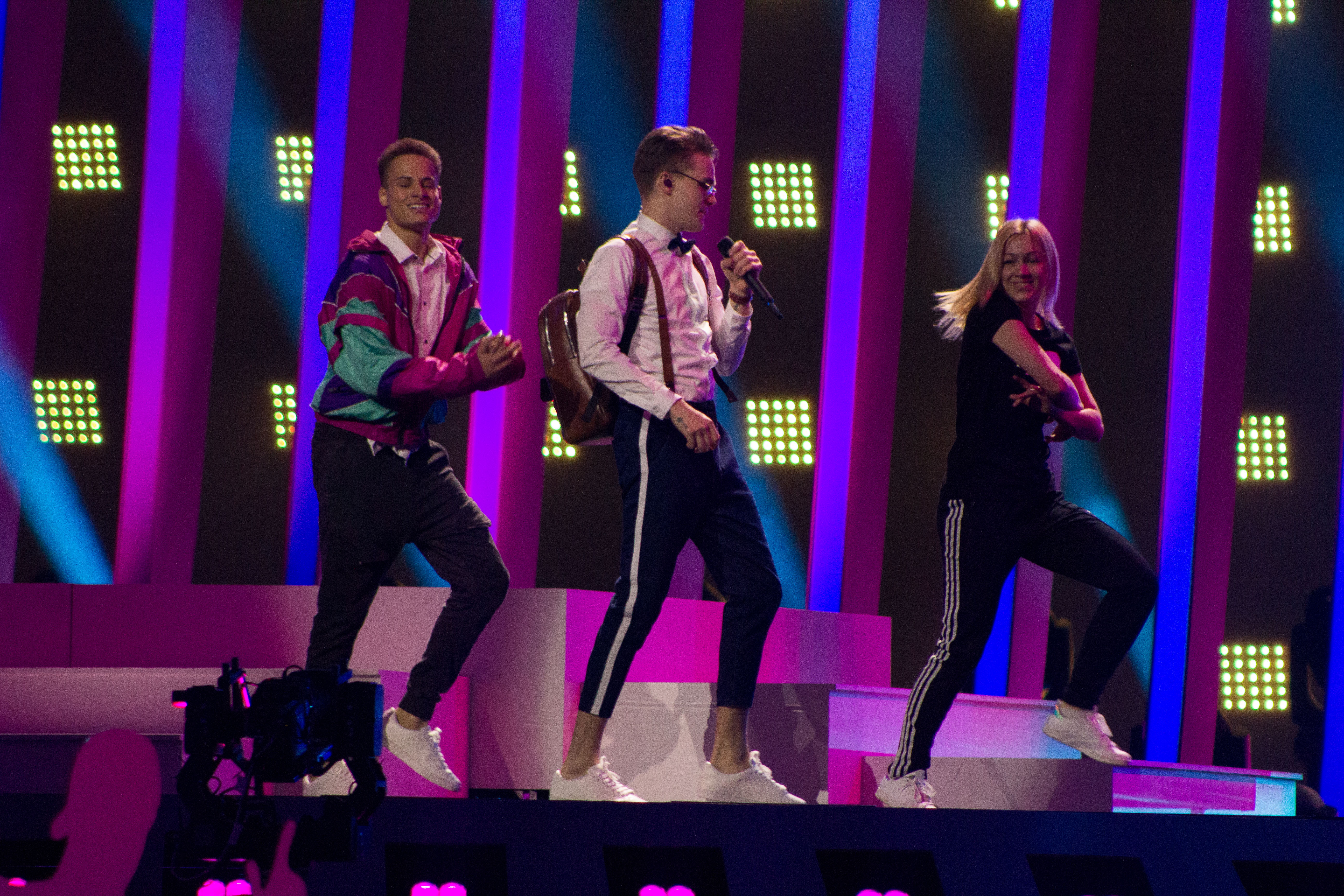 Mikolas Josef representing Czech Republic with the song "Lie to Me" during a rehearsal before the first semi final of the Eurovision Song Contest 2018 in Lisbon.